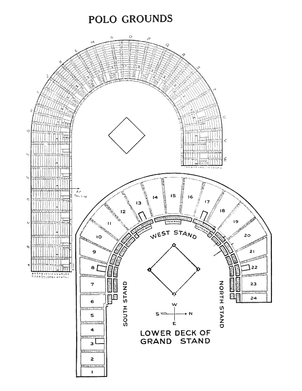 Diagram showing the grandstands at the Polo Grounds, New York